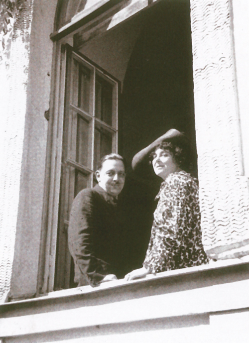 Giuseppe e Licy affacciati a una finestra del castello di Stomersee